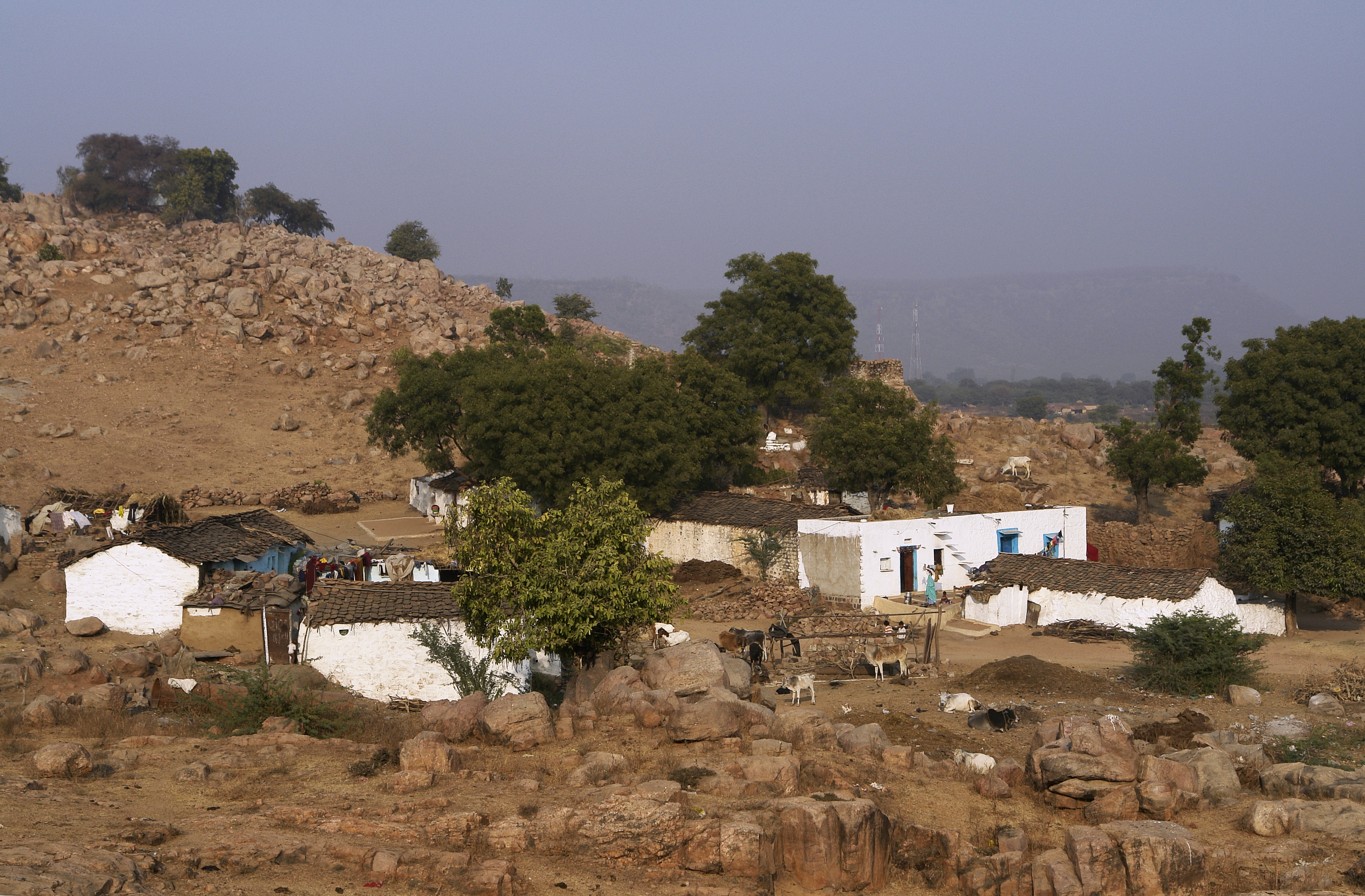 Village near Harsi dam, Gwalior district, India.